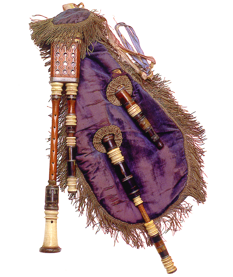 Chabrette attribuée au facteur Louis Maury, ca 1870